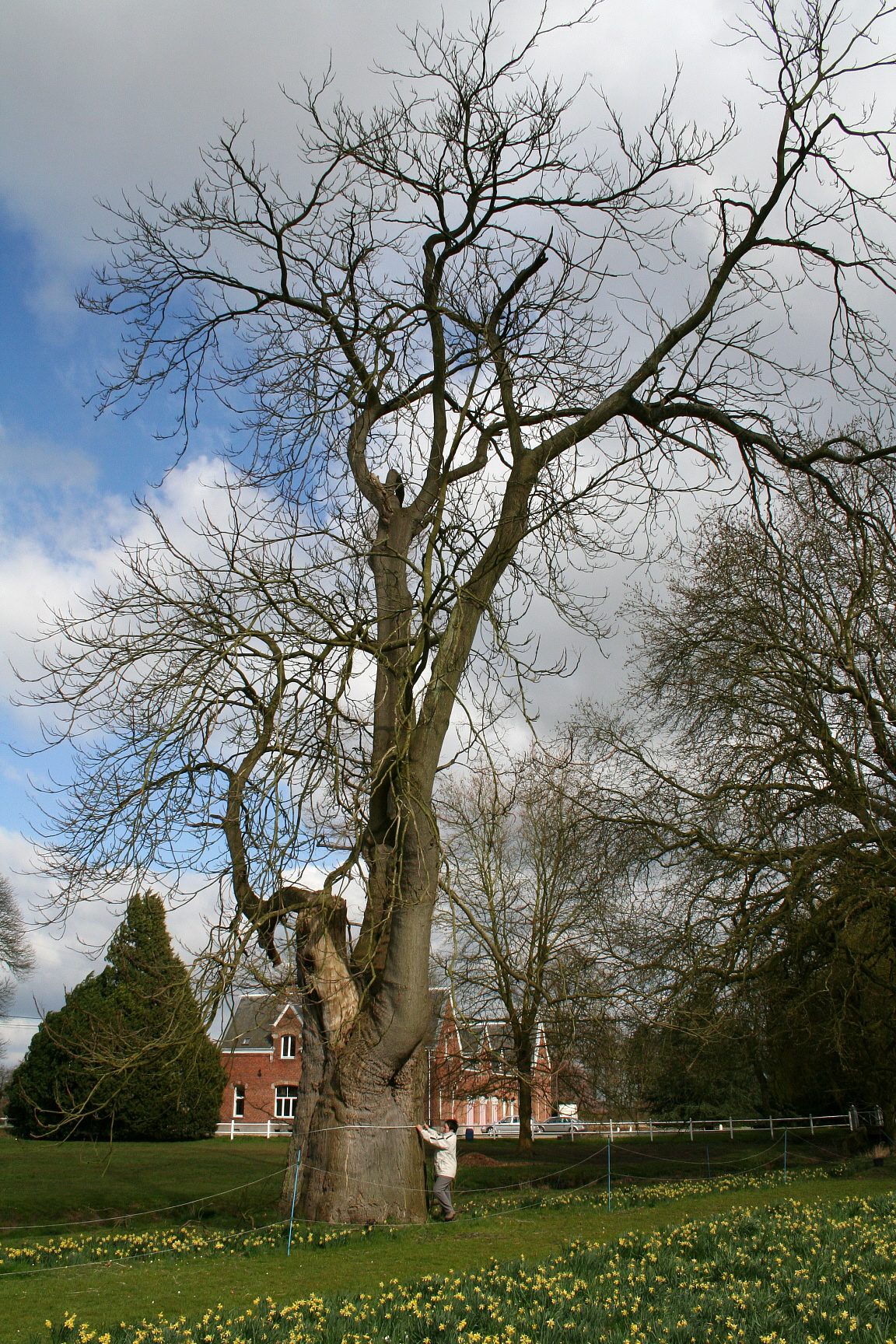 Tree of heaven (Ailanthus altissima).